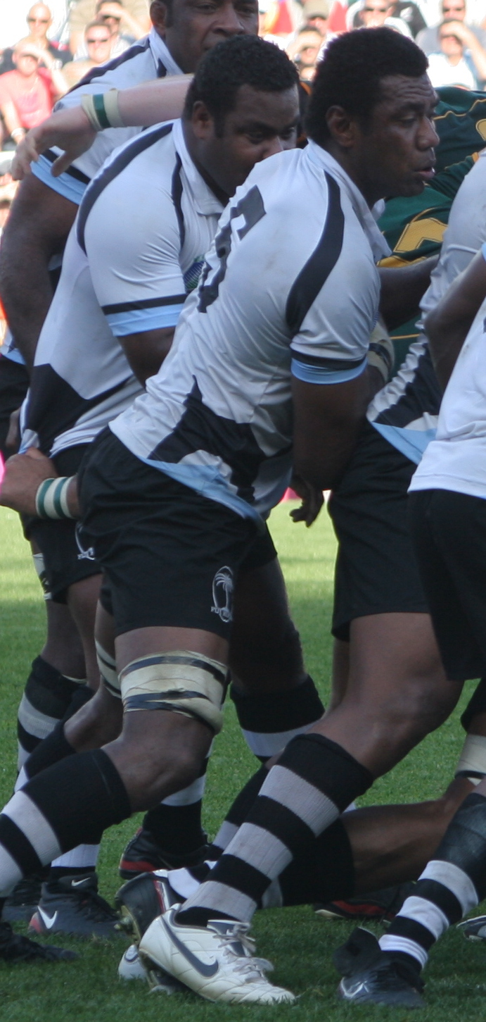 Fijian rugby union player Ifereimi Rawaqa during 2007 Rugby World Cup quater-final against South Africa, that took place in Marseille